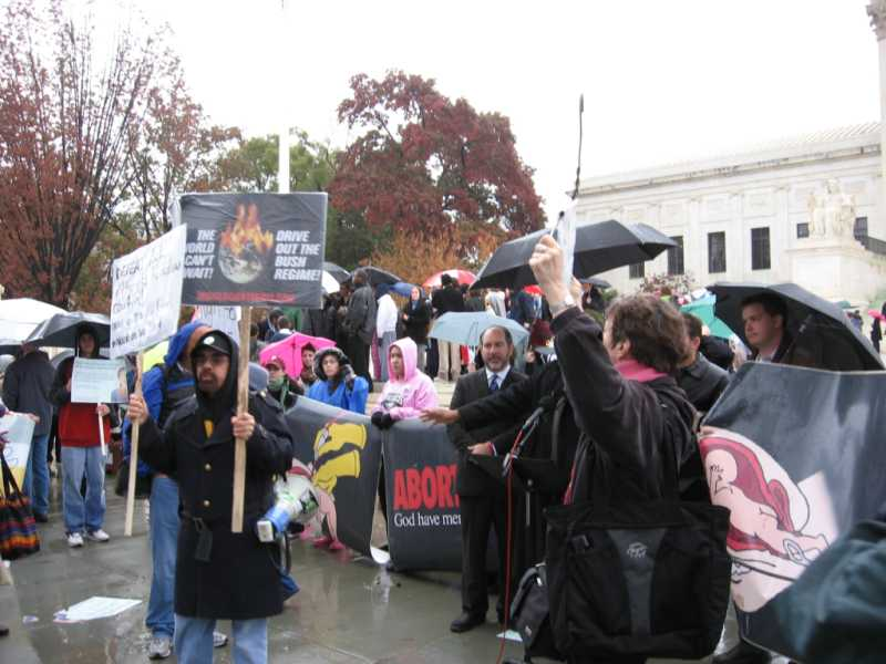 Caption from the English Wikipedia article Gonzales v. Carhart: Pro-choice and pro-life activists demonstrate on the steps of the United States Supreme Court building.